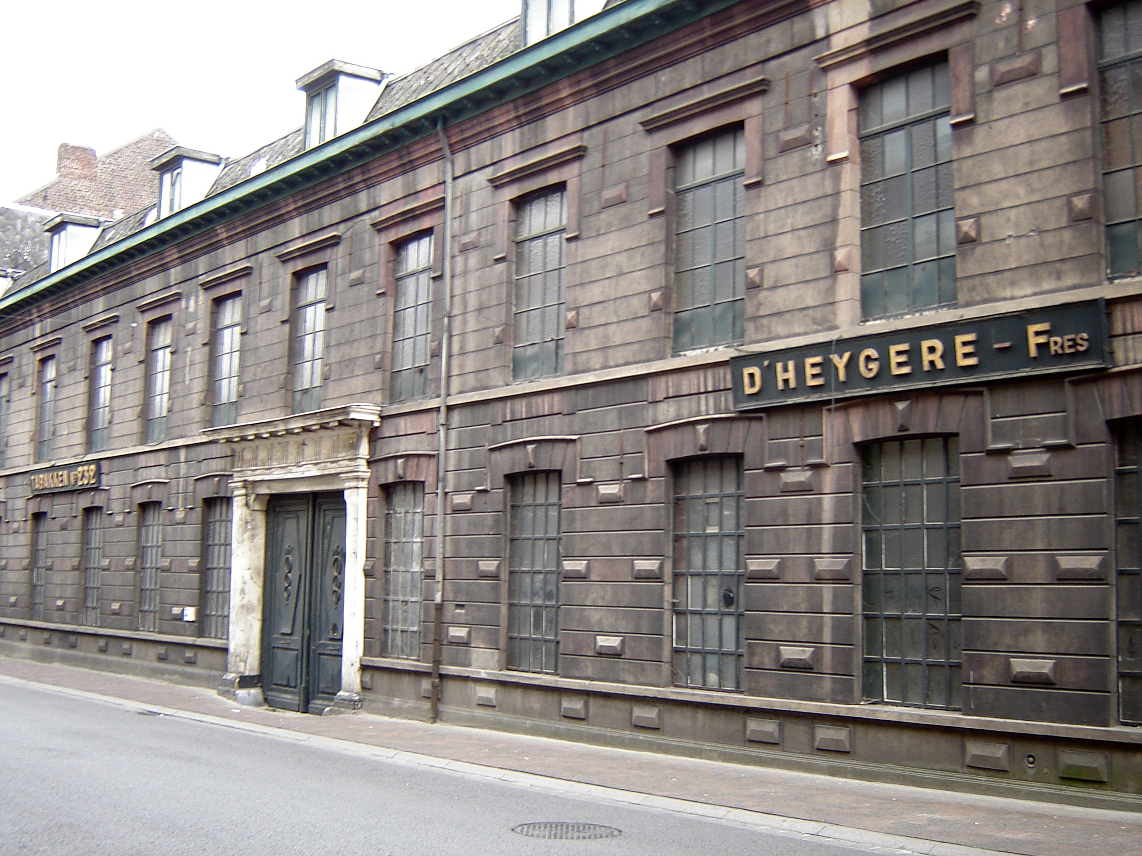 Former tobacco factory D'Heygere (1830-1991). Formerly a French military hospital from the 17th century, afterwards also gendarmerie, spinning factory, ... Menen, West Flanders, Belgium